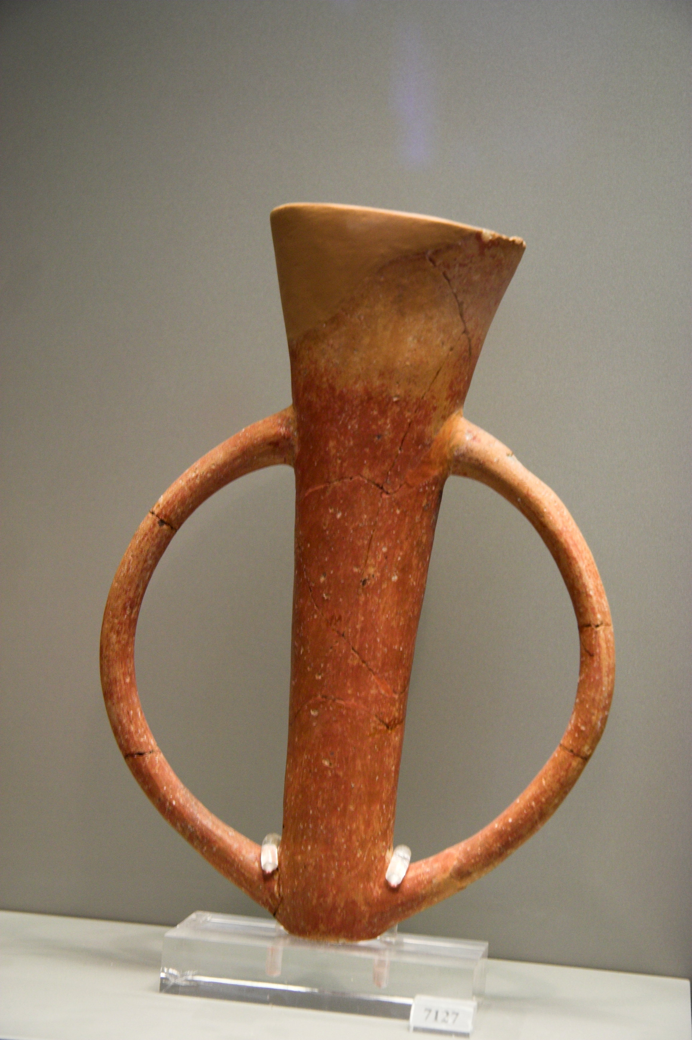 Vessel ("amfikypellon") from Poliochni on Lemnos, 3rd millennium BC. National Archaeological Museum of Athens 7127.